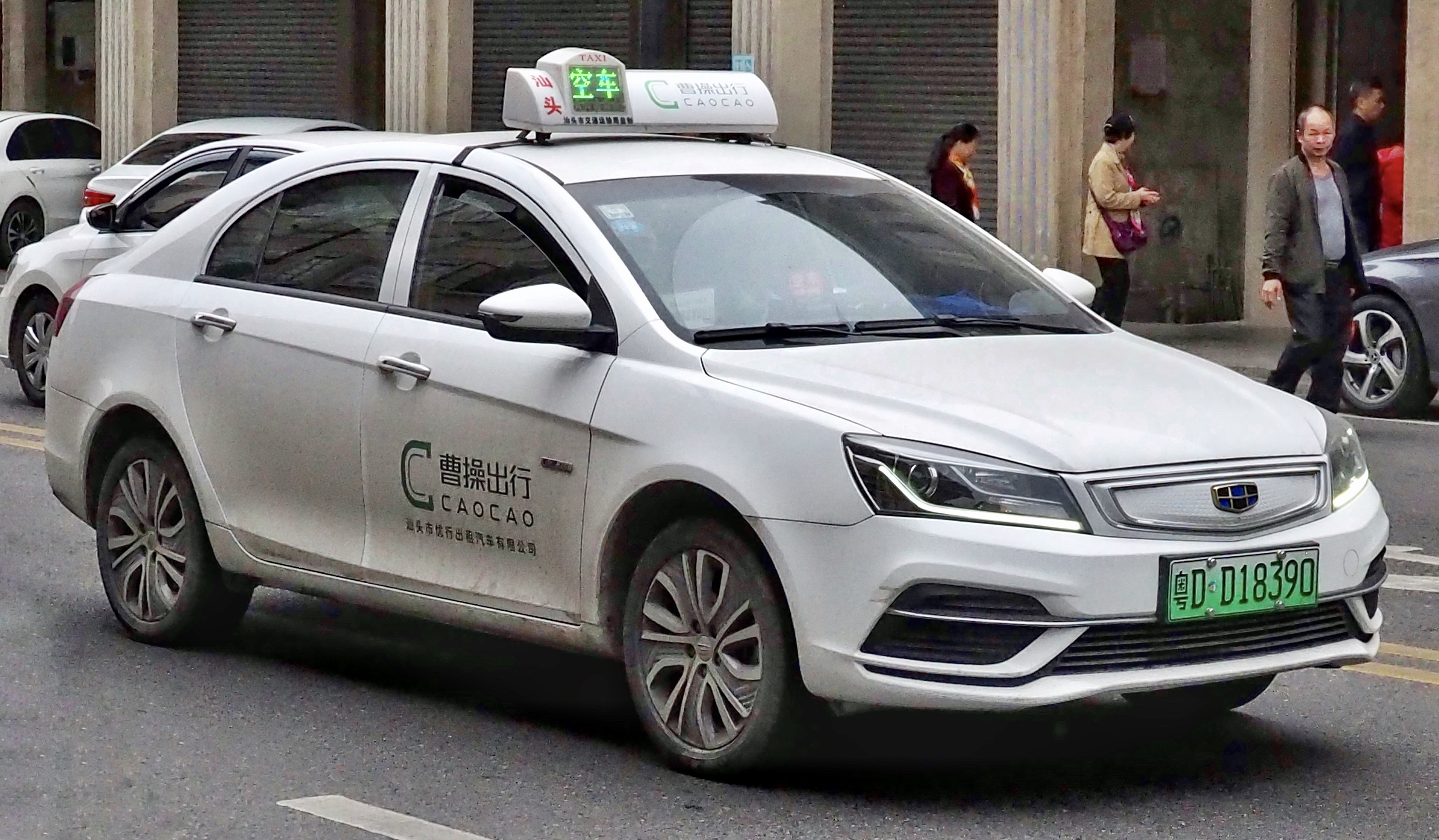 A 2018 Geely Emgrand EV in Caocao taxi service, photographed in Shantou, Guangdong Province, China. 中文（中国大陆）: 一辆2018年的吉利帝豪EV于曹操出行服务，摄于中国广东省汕头市。